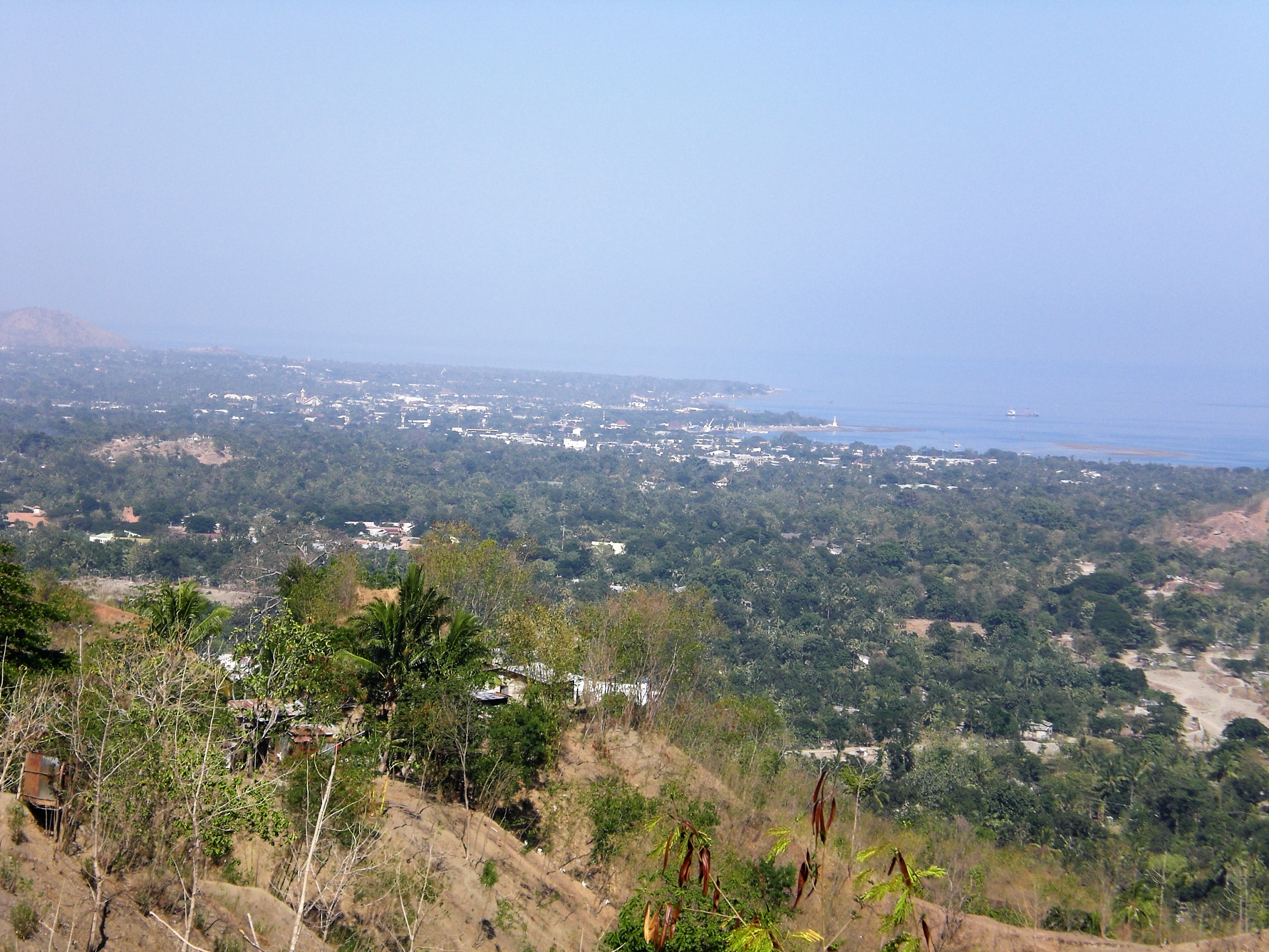 View towards Dili/Timor-Leste